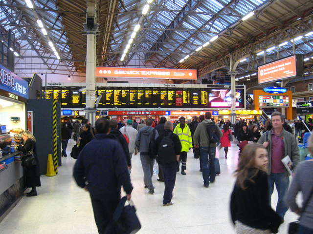 Victoria Station main concourse Busy at any time of the day.